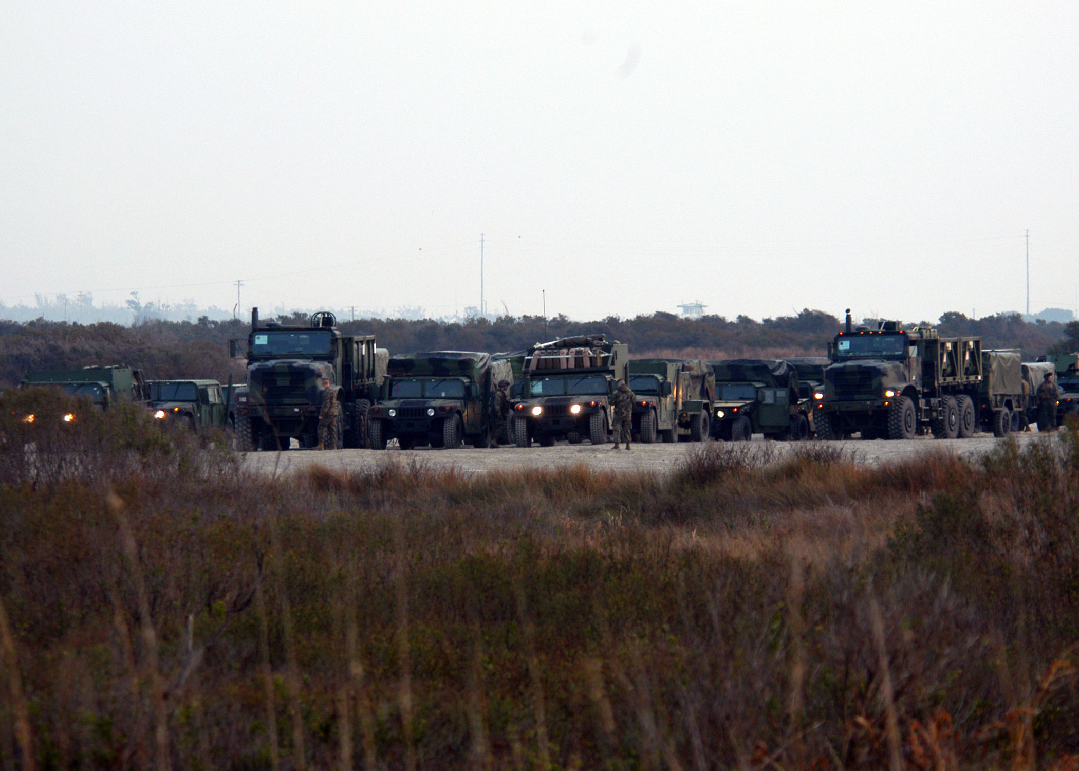 Onslow Bay, N.C. (Jan. 11, 2005) – Vehicles and equipment, assigned to the 26th Marine Expeditionary Unit (MEU), wait to be loaded aboard a Landing Craft Air Cushion (LCAC) vehicle, assigned to Assault Craft Unit Four (ACU-4), to be transferred to USS Kearsarge (LHD 3). The Kearsarge Expeditionary Strike Group (ESG) and the 26th MEU are participating in an ESG exercise in preparation for an upcoming scheduled deployment. U.S. Navy photo by Photographer's Mate Airman Christopher Newsome (RELEASED)